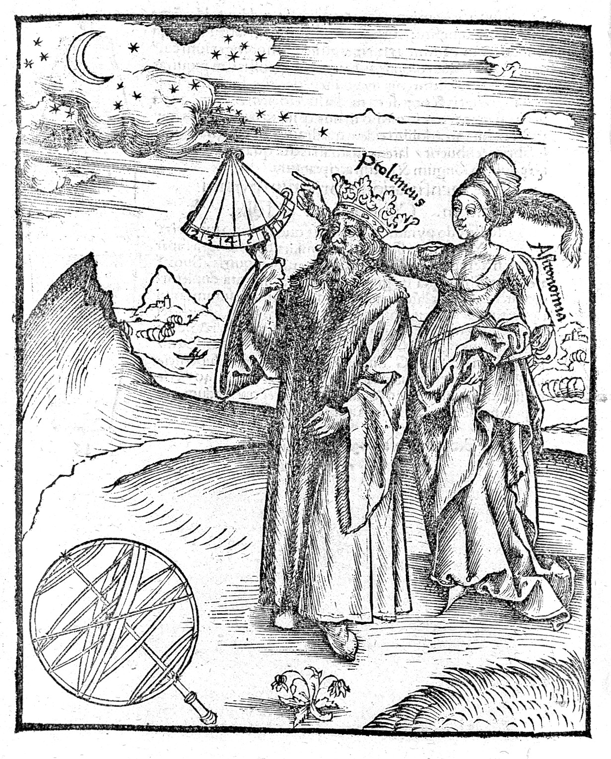 Ptolomy and Astronomy; woodcut from Gregor Reisch: Margarita Philosophica, Freiburg 1503 Rare Books Keywords: Astronomy; Ptolemy